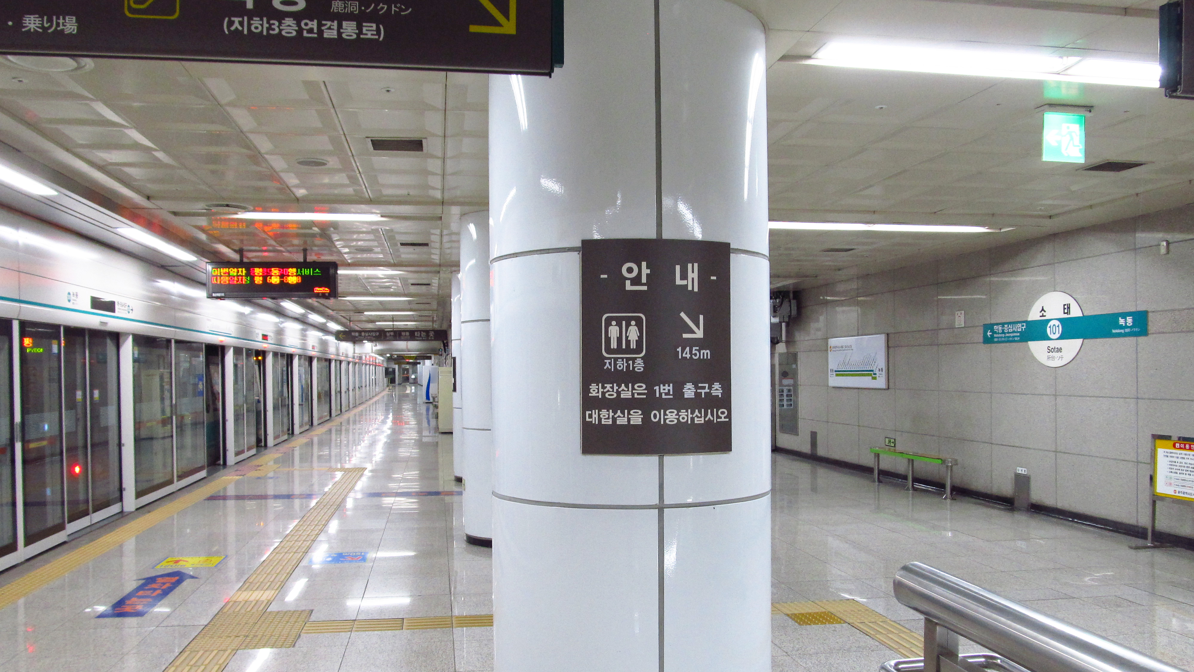 The platform at Sotae Station on Gwangju Metro Line 1 in Dong-gu, Gwangju, Republic of Korea(South Korea)